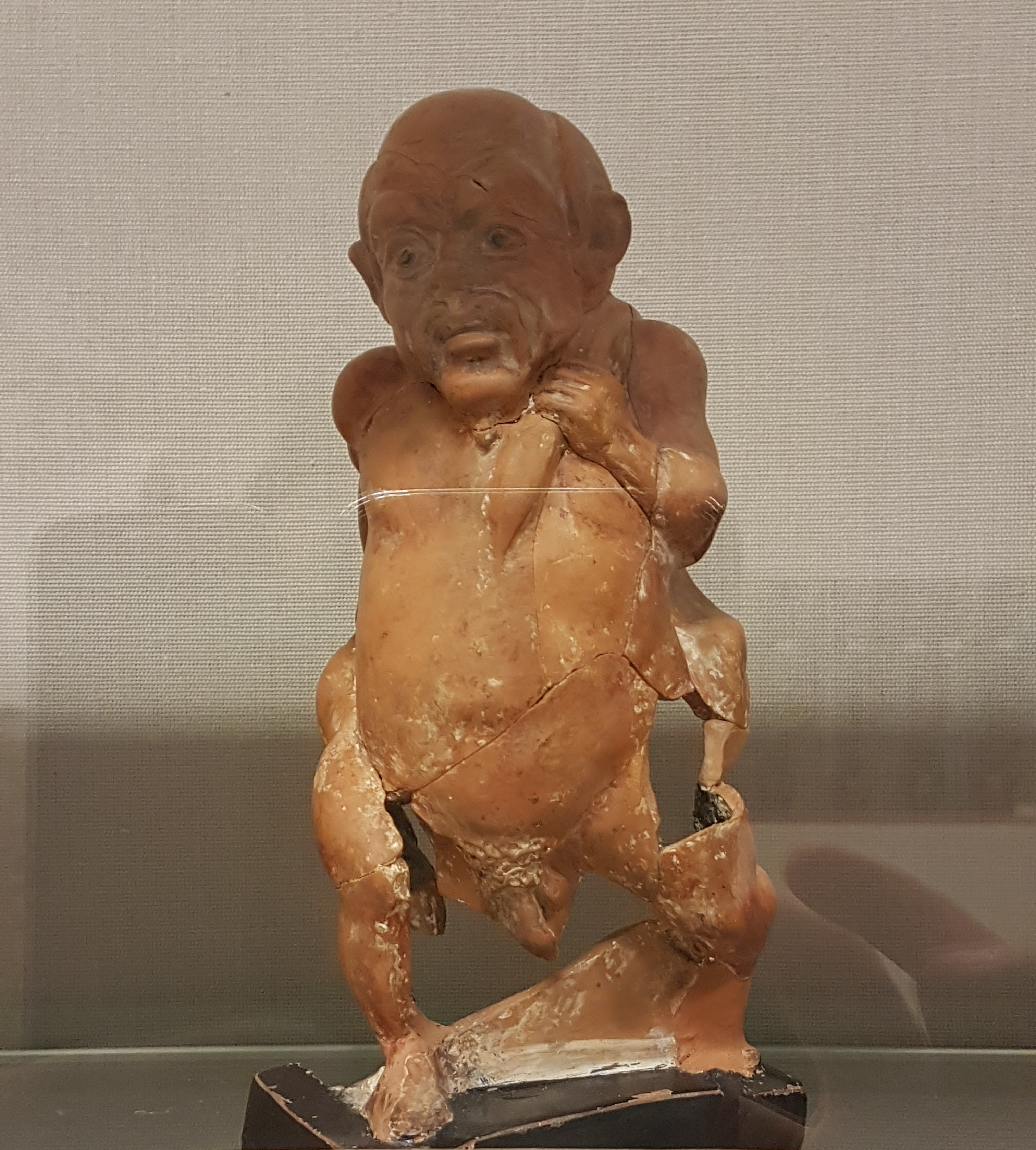 Pygmy Carrying Crane. Potted by Sotades, about 460-450 BC from Ruvo. British Museum. Pottery rhyton in the form of a pygmy. Red unvarnished ware. The upper part forming the rhyton is broken away. The lower part of the vase is in the form of a pigmy moving to his right; he is bald and bearded, with grotesque features. He carries a dead crane on left shoulder; his right arm is bent, and rests on a support. Museum number 1873,0820.289 BM Dimensions Height: 20.32 cm.